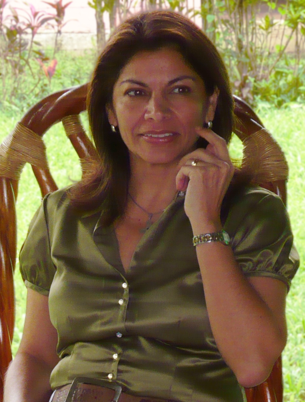 foto de laura chinchilla